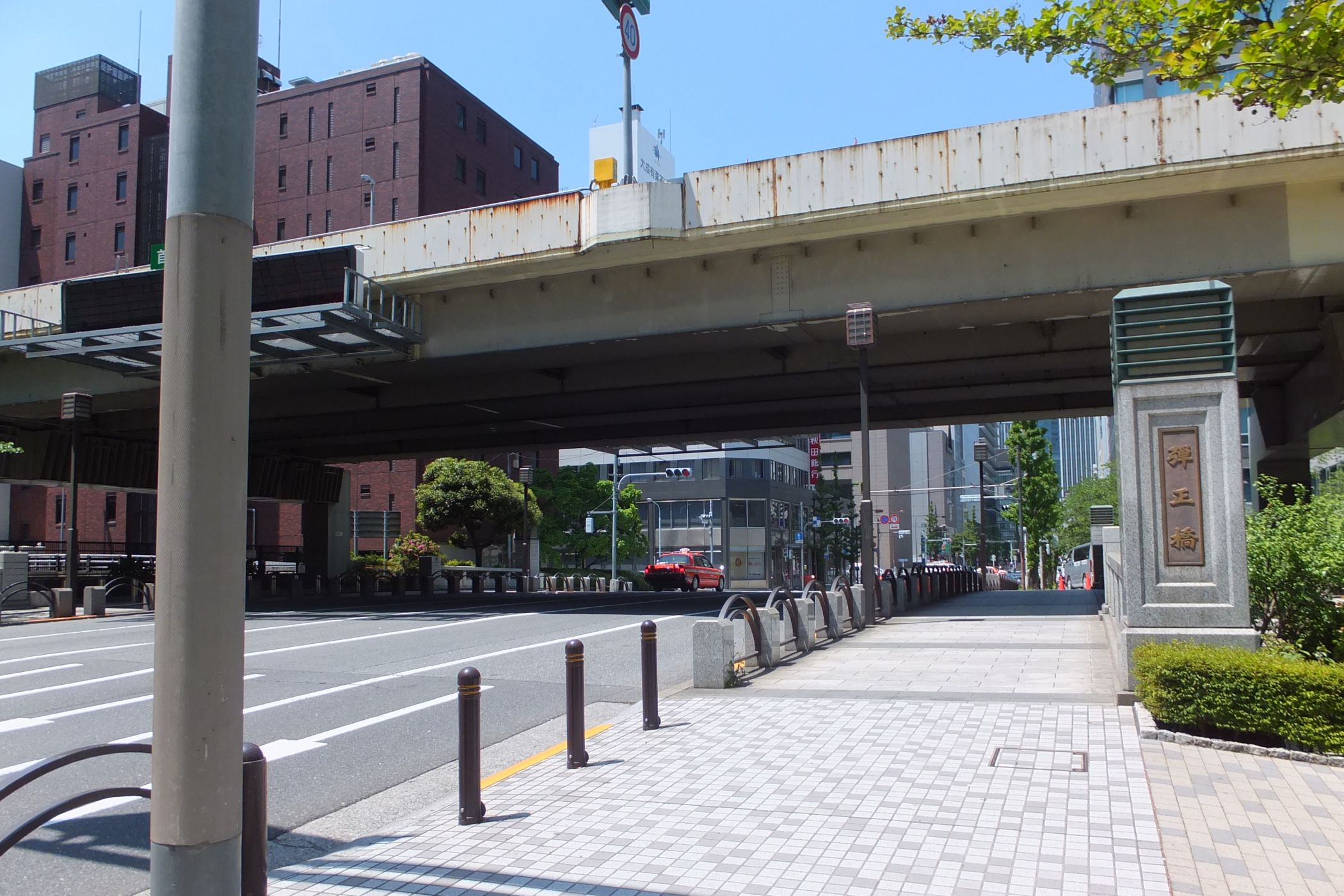 Danjō-bashi bridge in Chūō, Tokyo